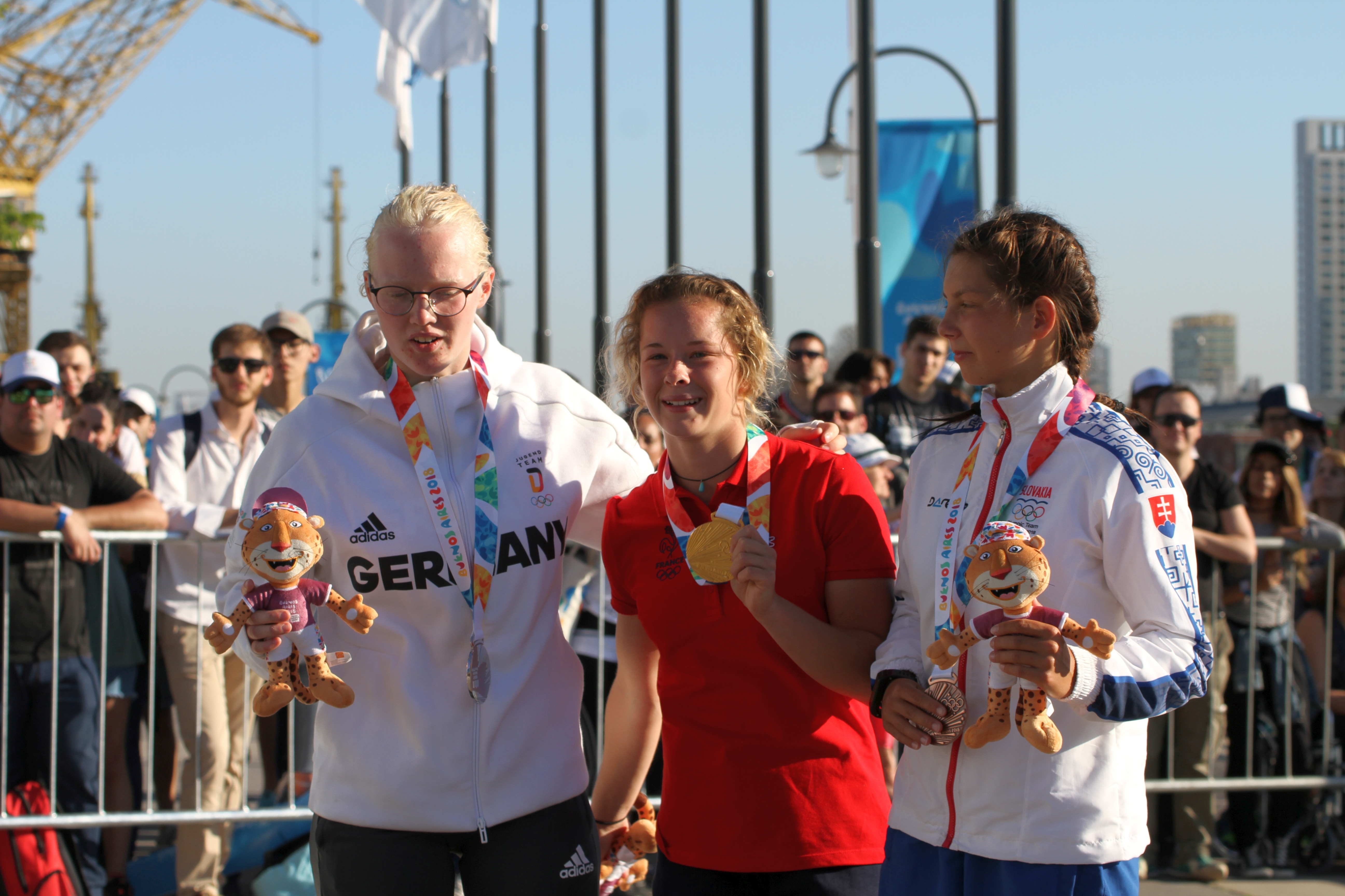 Canoeing at the 2018 Summer Youth Olympics at 16 October 2018 – Girls' C1 slalom Gold Medal Race: Doriane Delassus (France, gold) - Zola Lewandowski (Germany, silver) - Emanuela Luknárová (Slovakia, bronze)